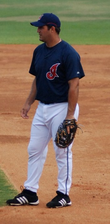 Ryan Garko in 2007.